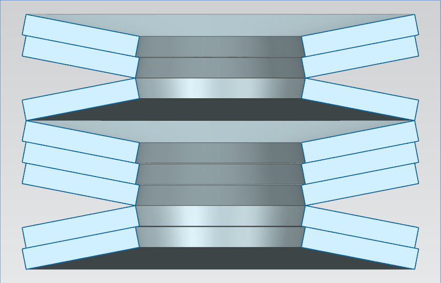 Cross-section view of 3-2-2-1 stack of Belleville washers